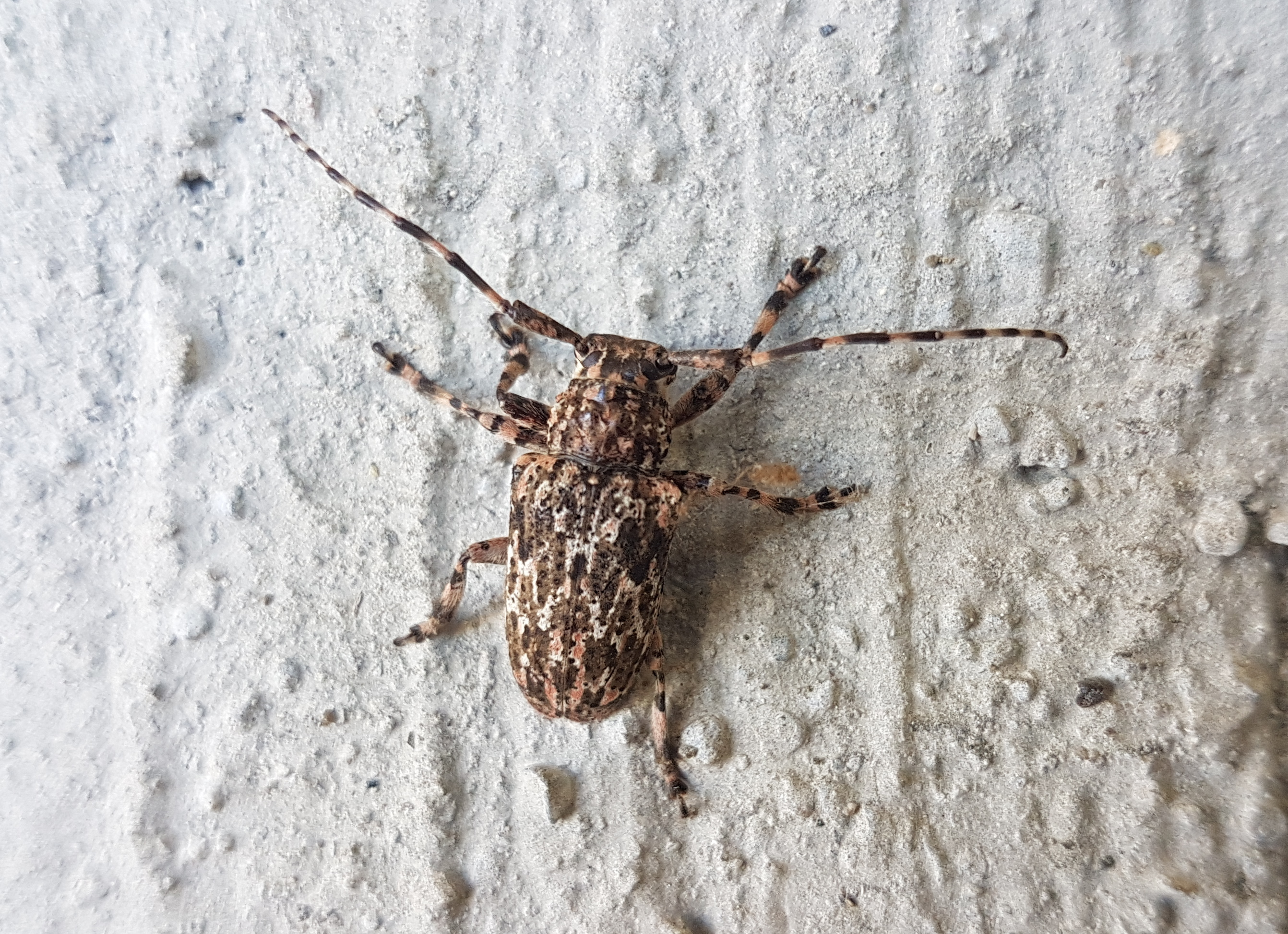 Coptops tetrica from Mindanao, Philippines